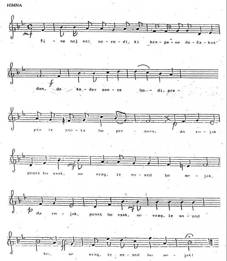 The melody of the 7th stanza of Zdravljica by Stanko Premrl, i.e. the national anthem of the Republic of Slovenia. The melody was written in 1905 and published in 1906. Translation of the text: "ANTHEM: May all nations prosper / That long to see the day / When quarrels shall be chased away / From under the sun, / When all our countrymen / Shall be free, / And not enemies, but only neighbours, border us."